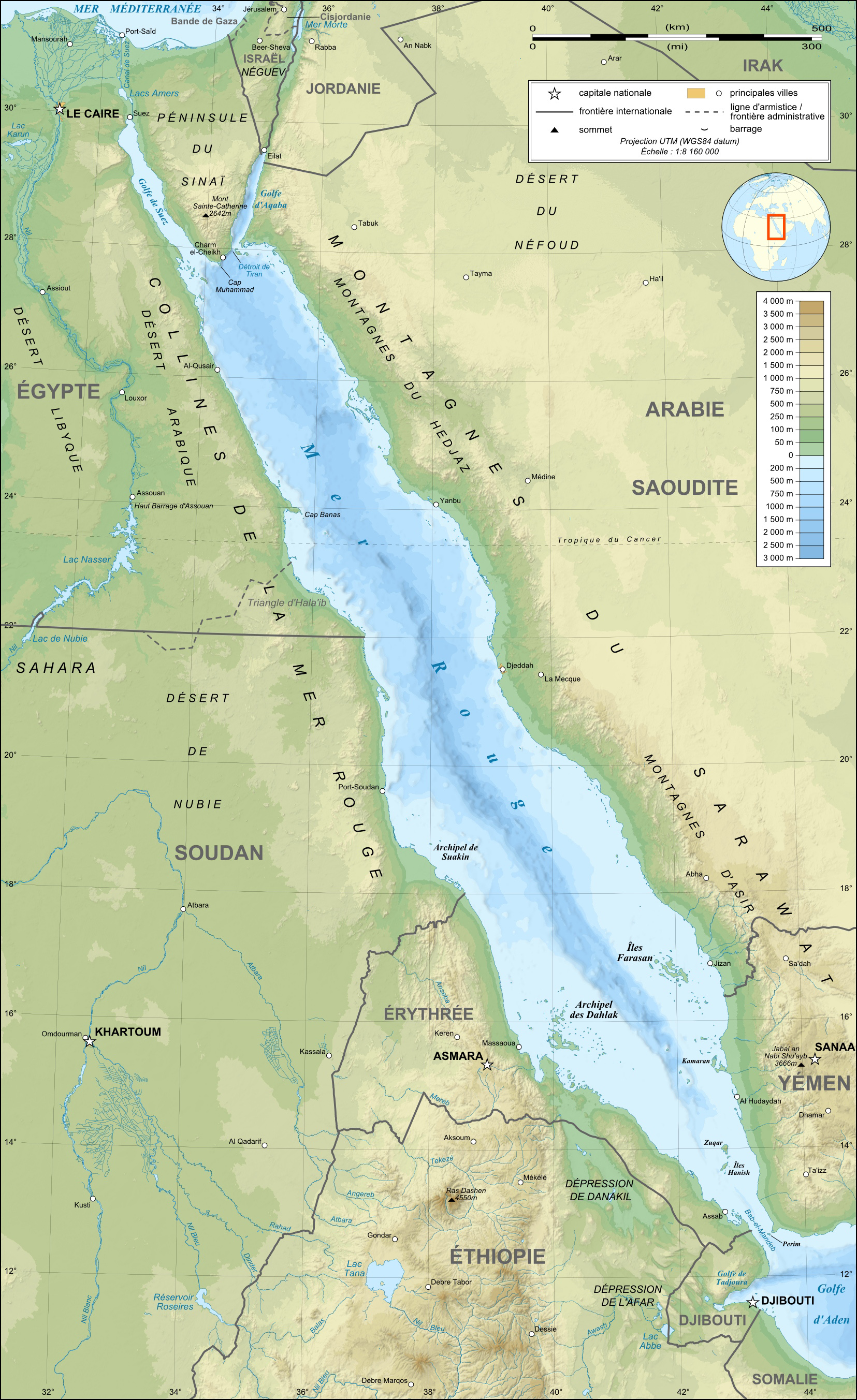 Topographic / bathymetric map in French of the Red Sea, UTM projection (WGS84 datum).Note : for translation purpose, use the SVG version.